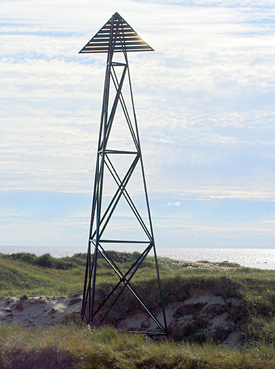 Day mark. Aid to sea navigation. Location: Jærens rev, municipality of Klepp in the county of Rogaland, Norway Kjelde: Jærbladet